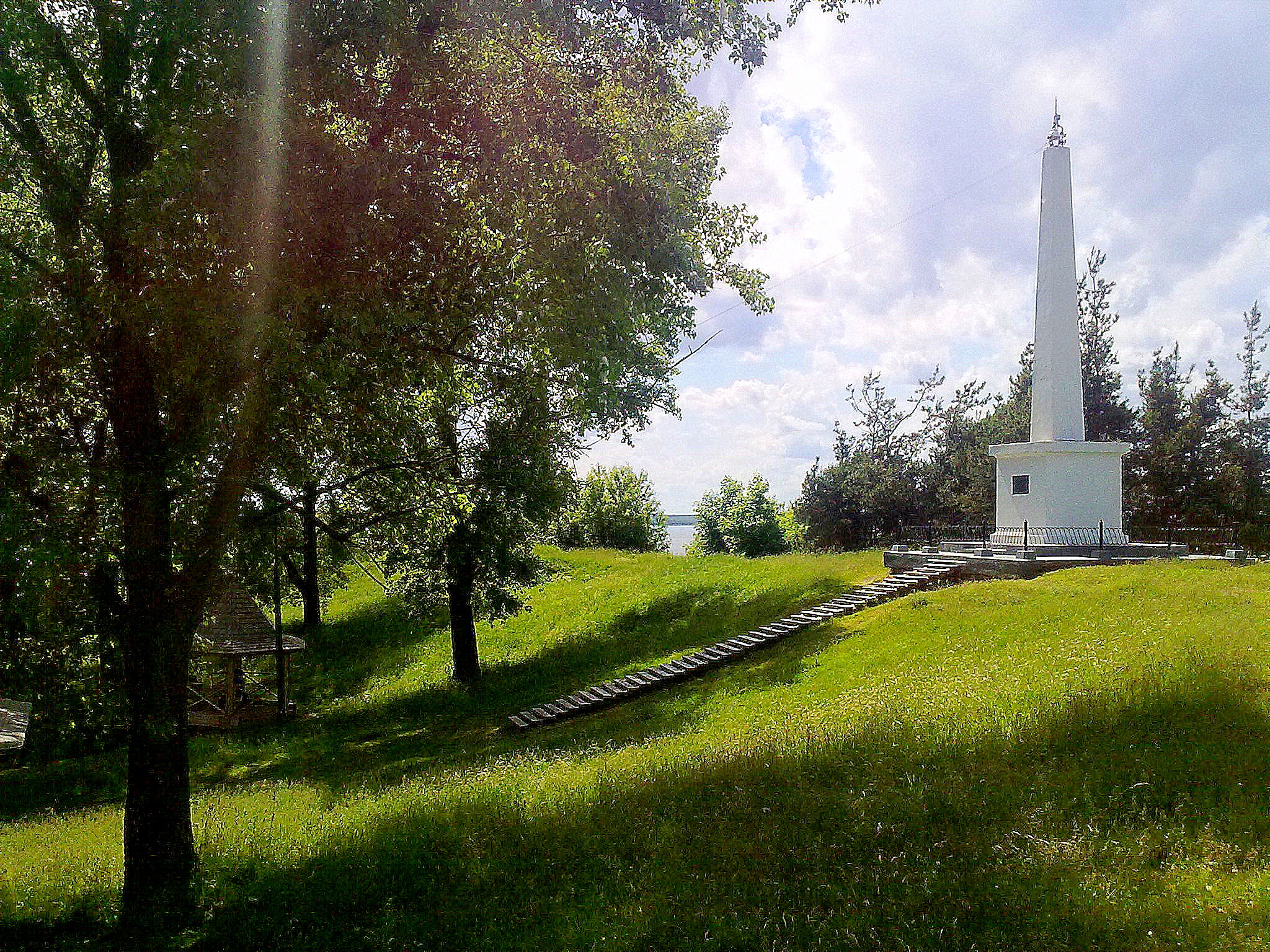 Беларуская (тарашкевіца): Гарадзішча. г. Браслаў This is a photo of Belarusian heritage monument. Reference number: 213В000174 ( WLM)